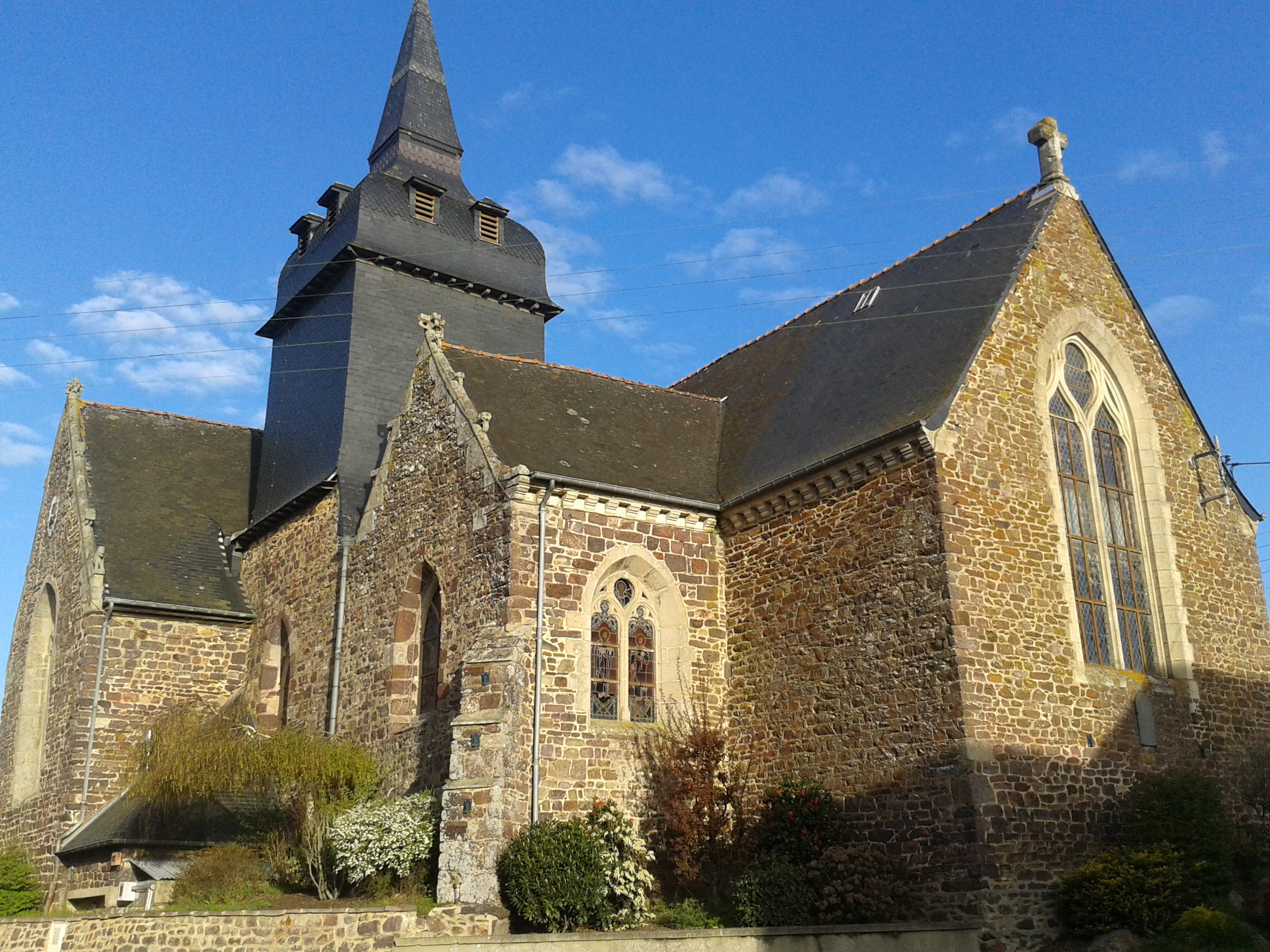 Church of Breteuil